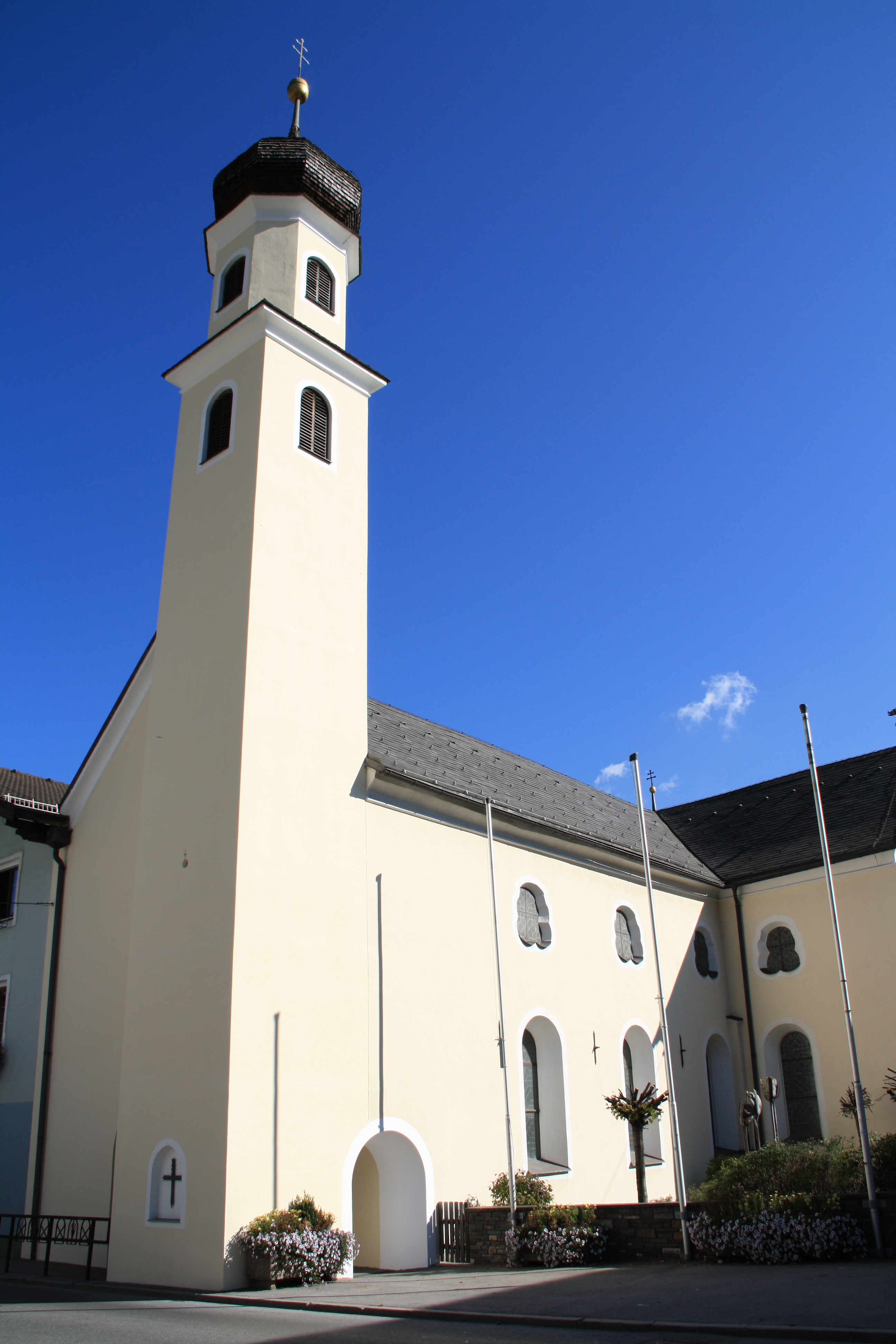 Austria, Tyrol (state), Matrei am Brenner. Spitalskirche Hl. Geist and its tower bell on the front.